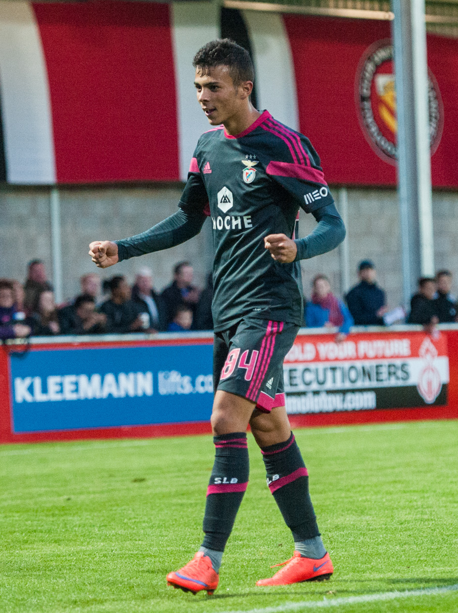 FC United of Manchester v SL Benfica. 29/05/15. Benfica's Diogo Goncalves celebrates scoring the only goal of the game during the international friendly match between FC United of Manchester and SL Benfica at Broadhurst Park, Manchester, Greater Manchester on Friday May 28th 2015.